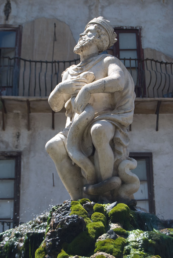 Statue of the Genius of Palermo, 16th century, marble. Piazza Rivoluzione, Palermo, Italy. Statua del Genio di Palermo, XVI secolo, marmo. Piazza Rivoluzione, Palermo, Italia.